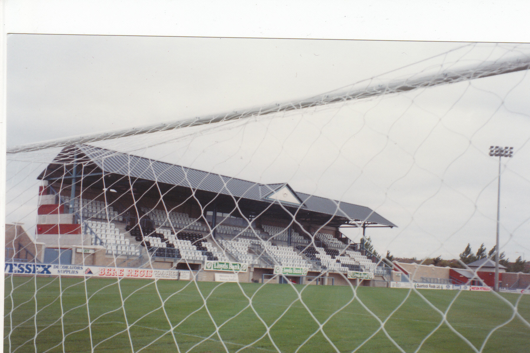 Main Stand Dorchester Town football ground